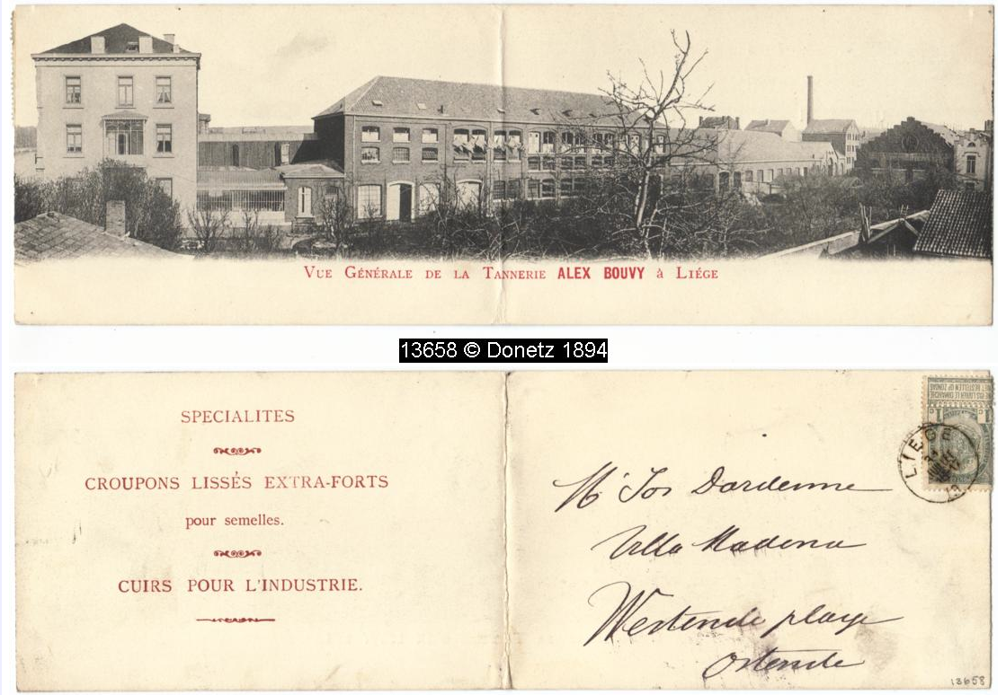 Tannery Alex Bouvy postcard in Liège -1894